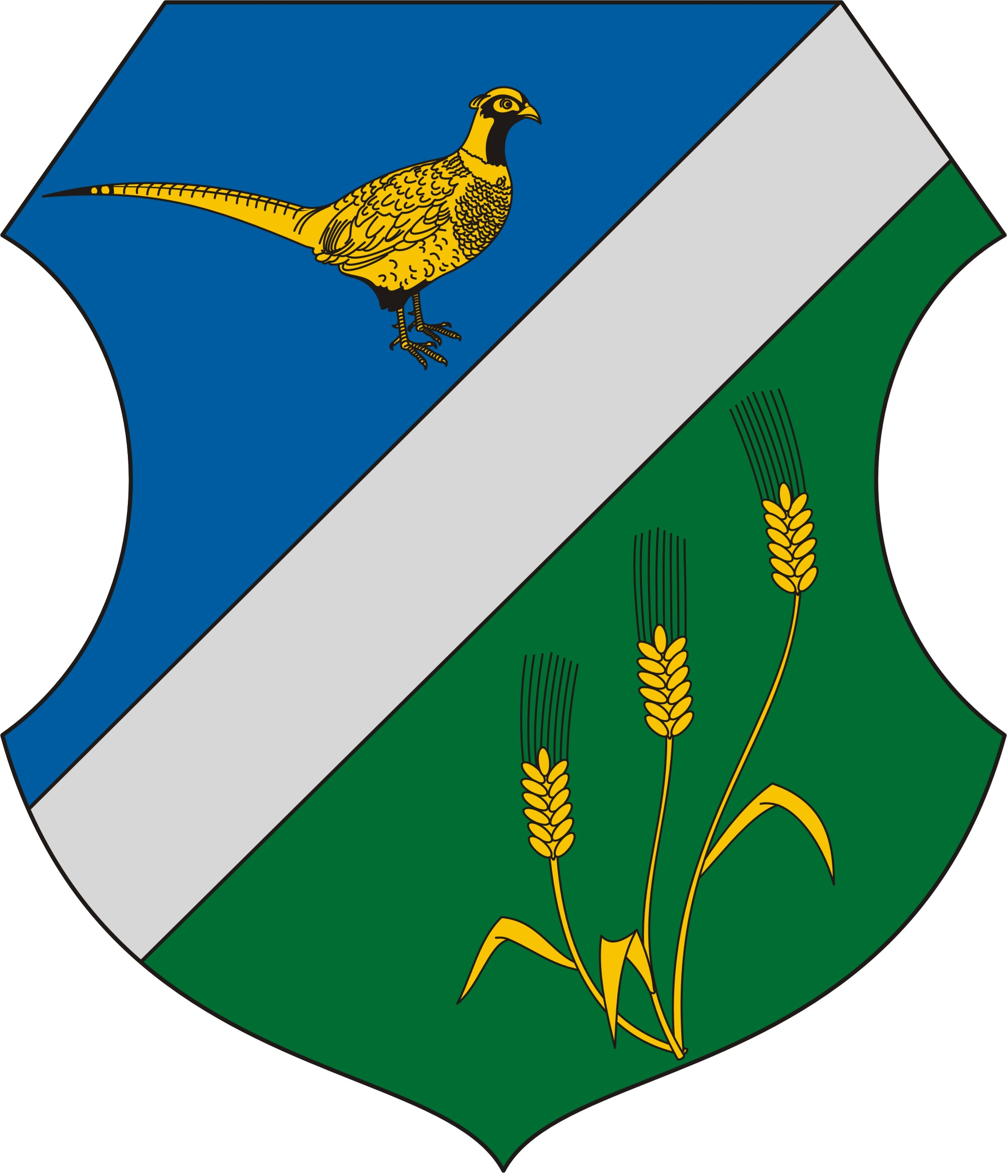 Coat of arms of Fácánkert, Hungary